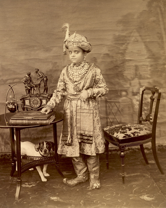 Krishnaraja Wadiyar IV, the adolescent Maharajah of the princely state of Mysore taken on February 2, 1895, a few months before his 11th birthday on June 4